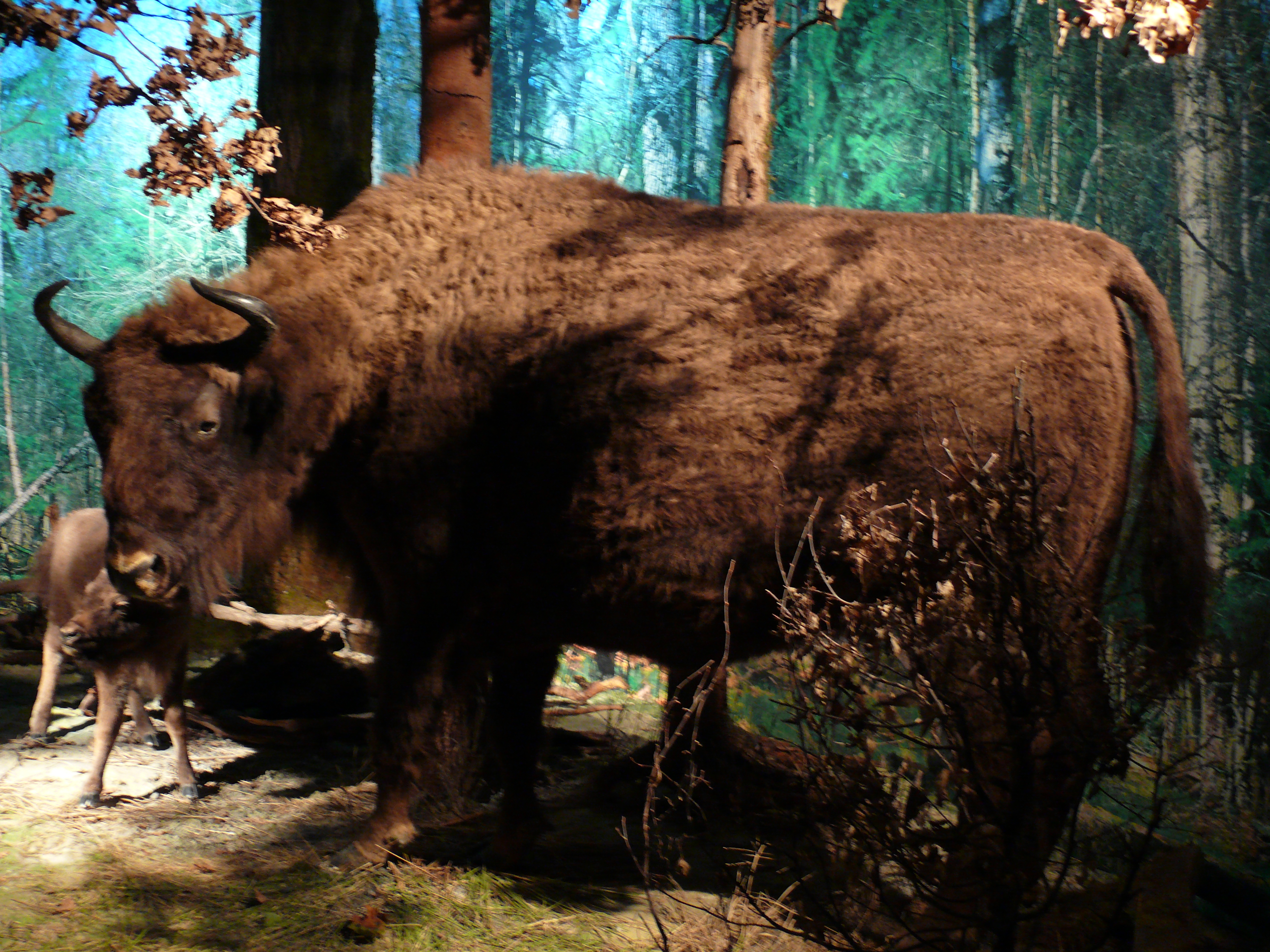 Museum in Białowieża, part of diorama